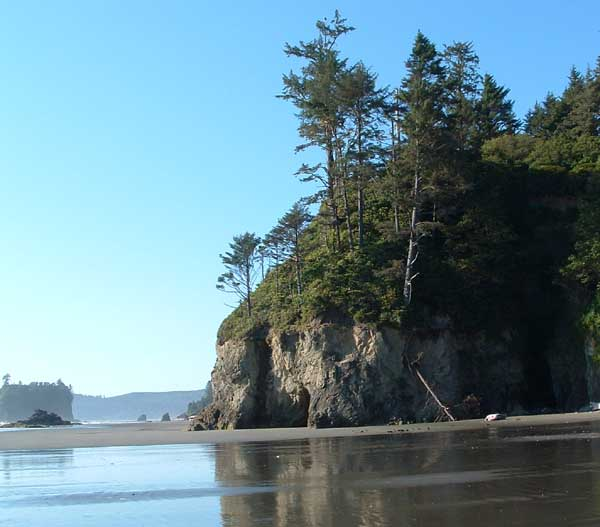 Ruby Beach in Olympic National Park, more Olympic National Park photos. Terms of use for photo